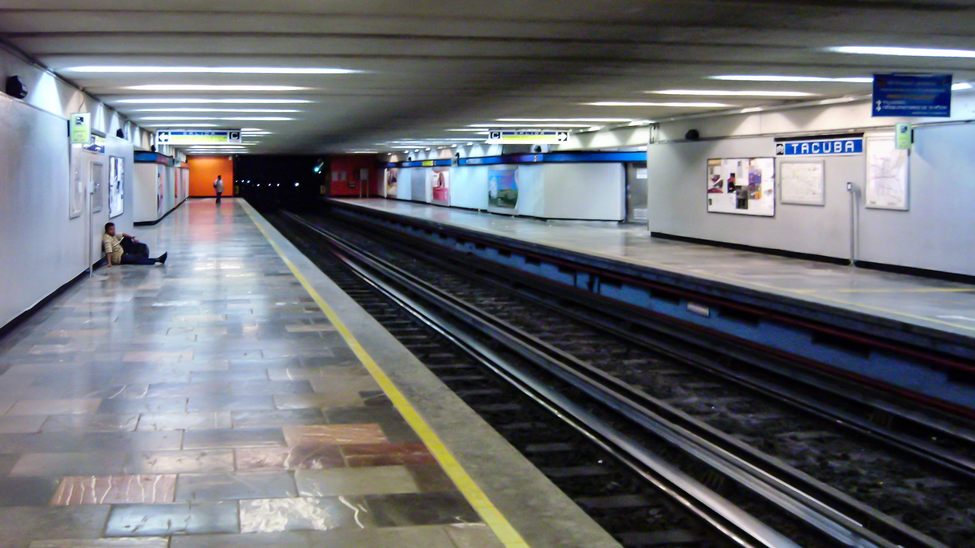 Tacuba Station of Mexico City Subway.